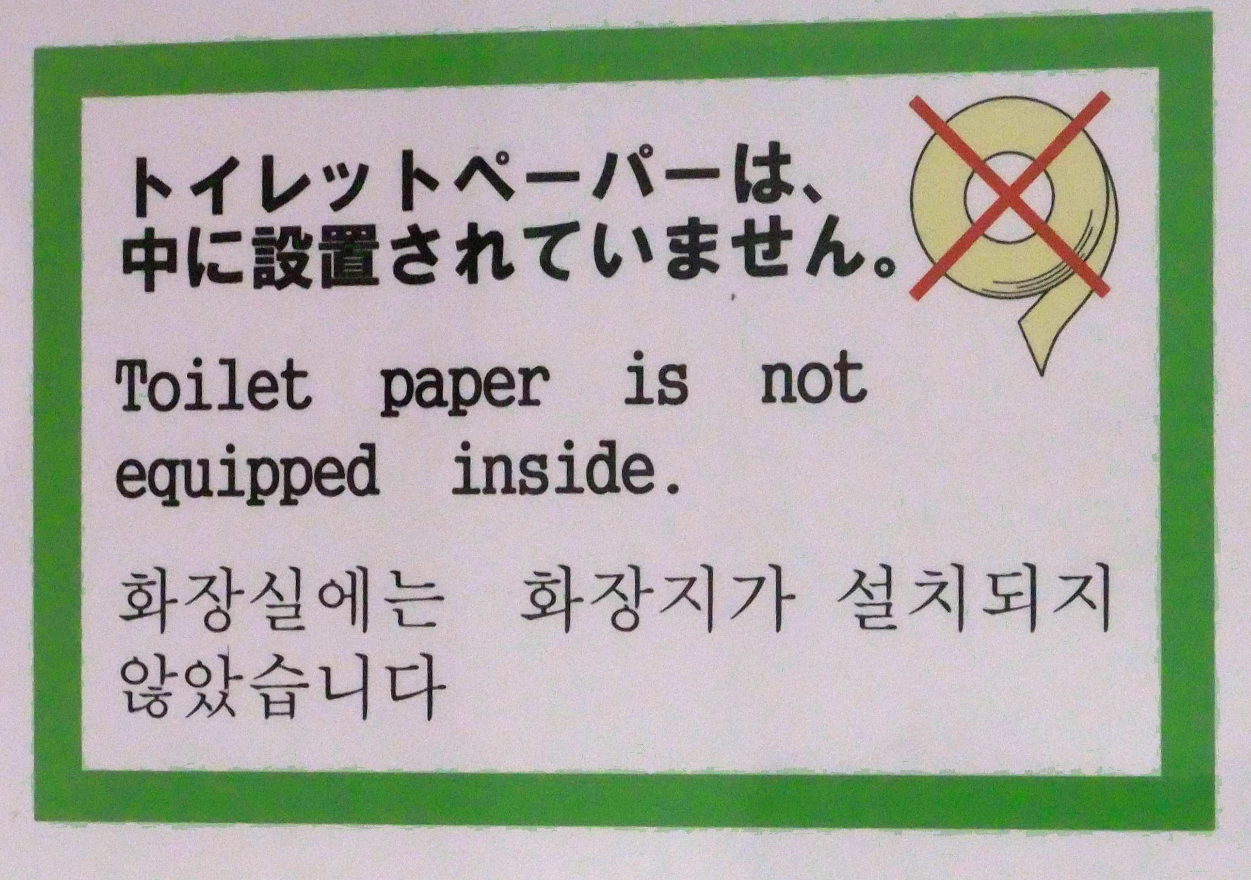 Kyoto Station - a concourse with shops etc. And a toilet with no paper.